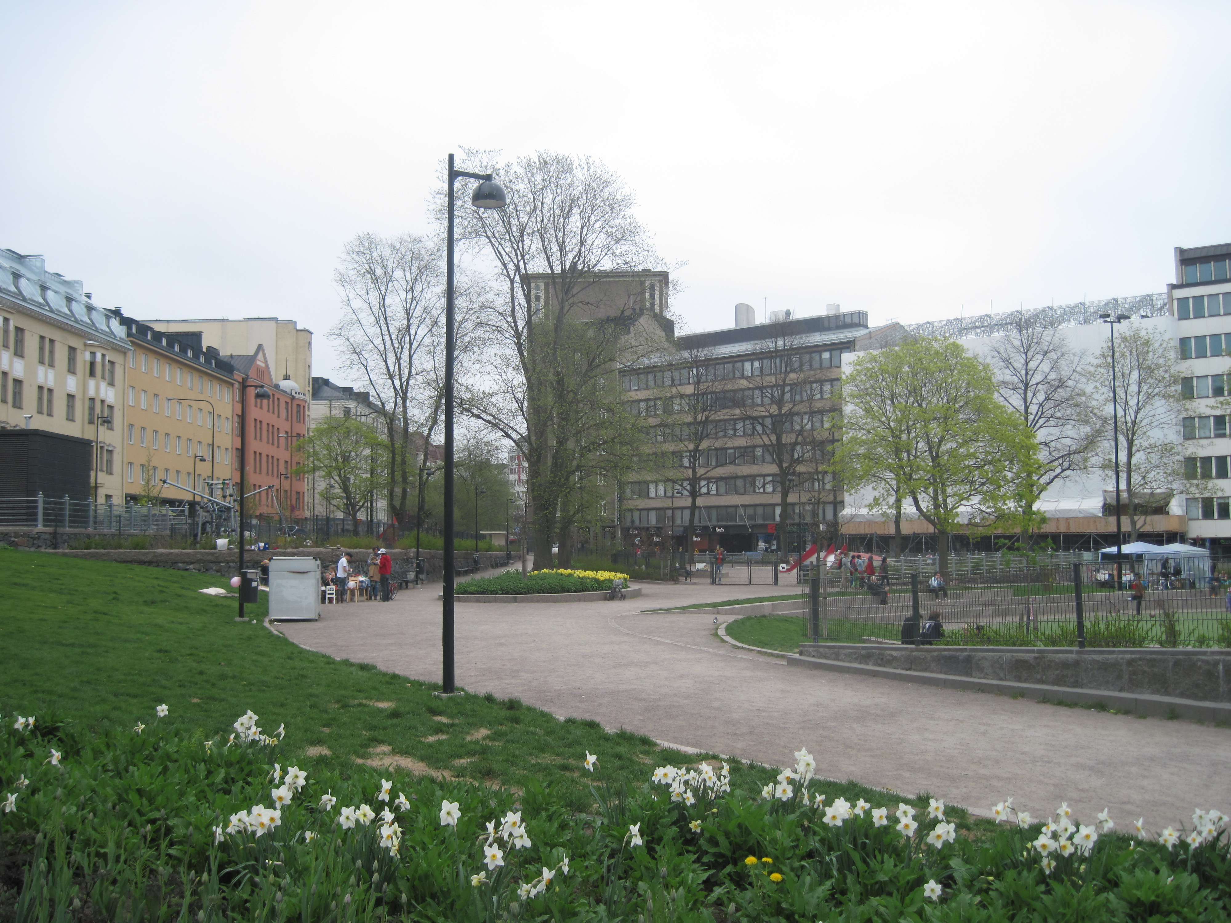 Lastenlehto Park in Helsinki, Finland, as seen from Lapinrinne.